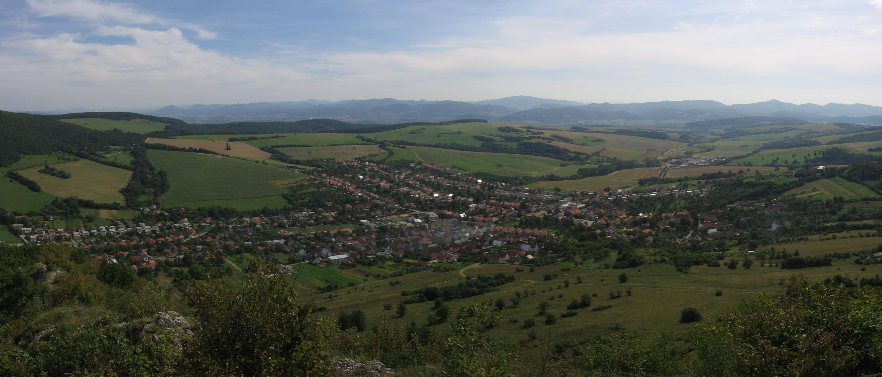 View of Dolná Súča from Krasín, Trenčín district, Western Slovakia